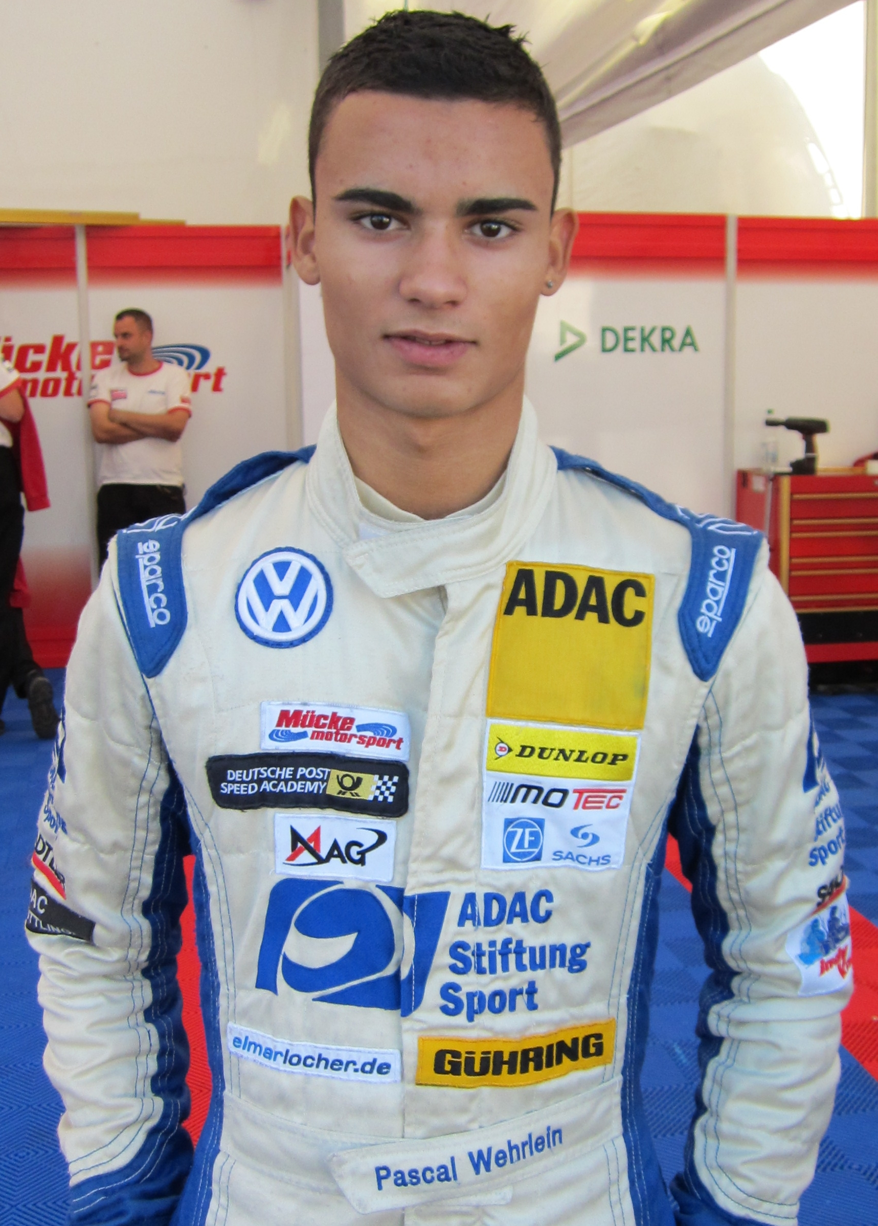 Pascal Wehrlein: the photo was taken during 2011's ADAC GT Masters race weekend at Hockenheim